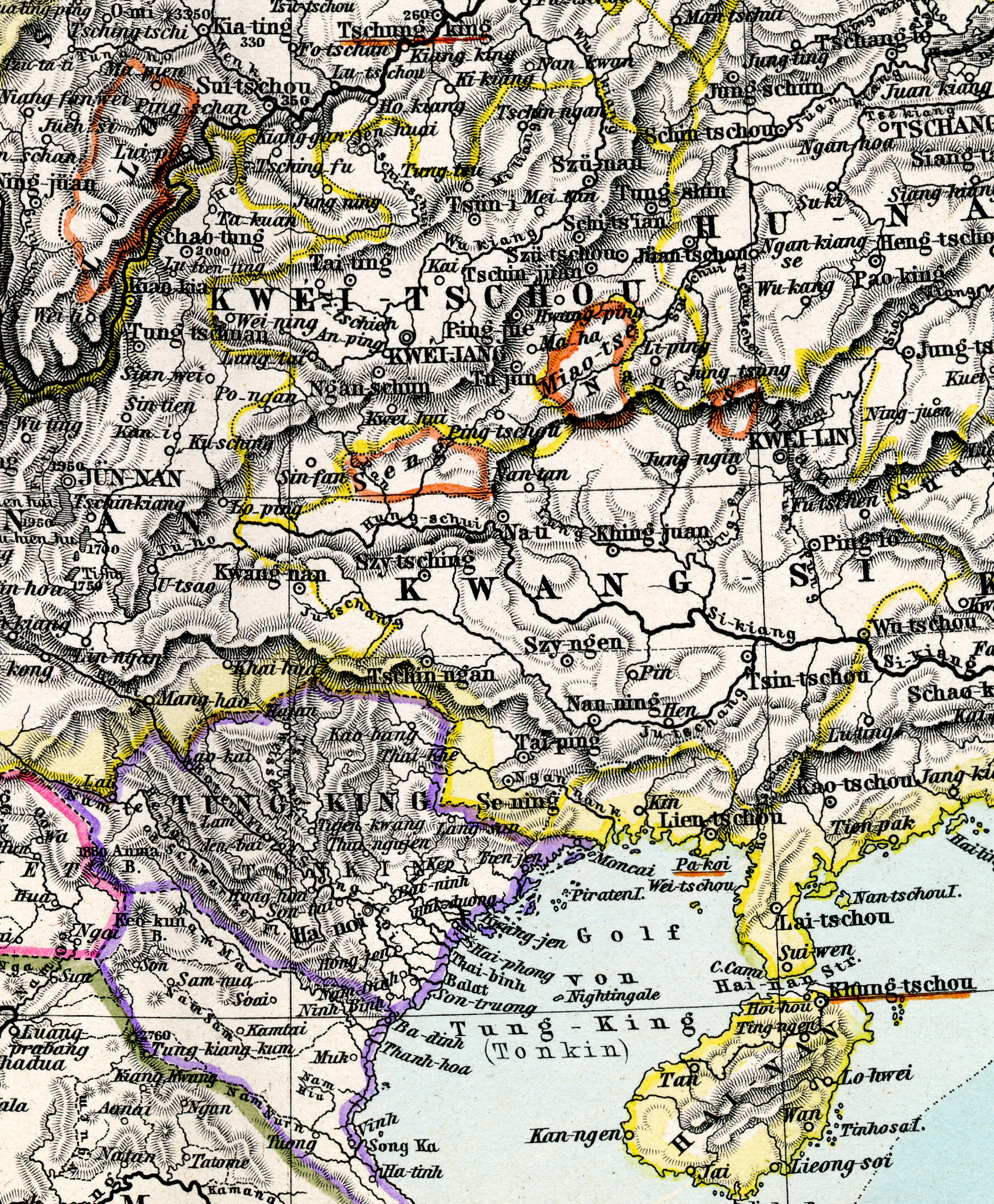 Detail of plate from Stielers Hand-Atlas (Gotha, Justus Perthes, 1891), showing a "Miao-tse" enclave in southern China